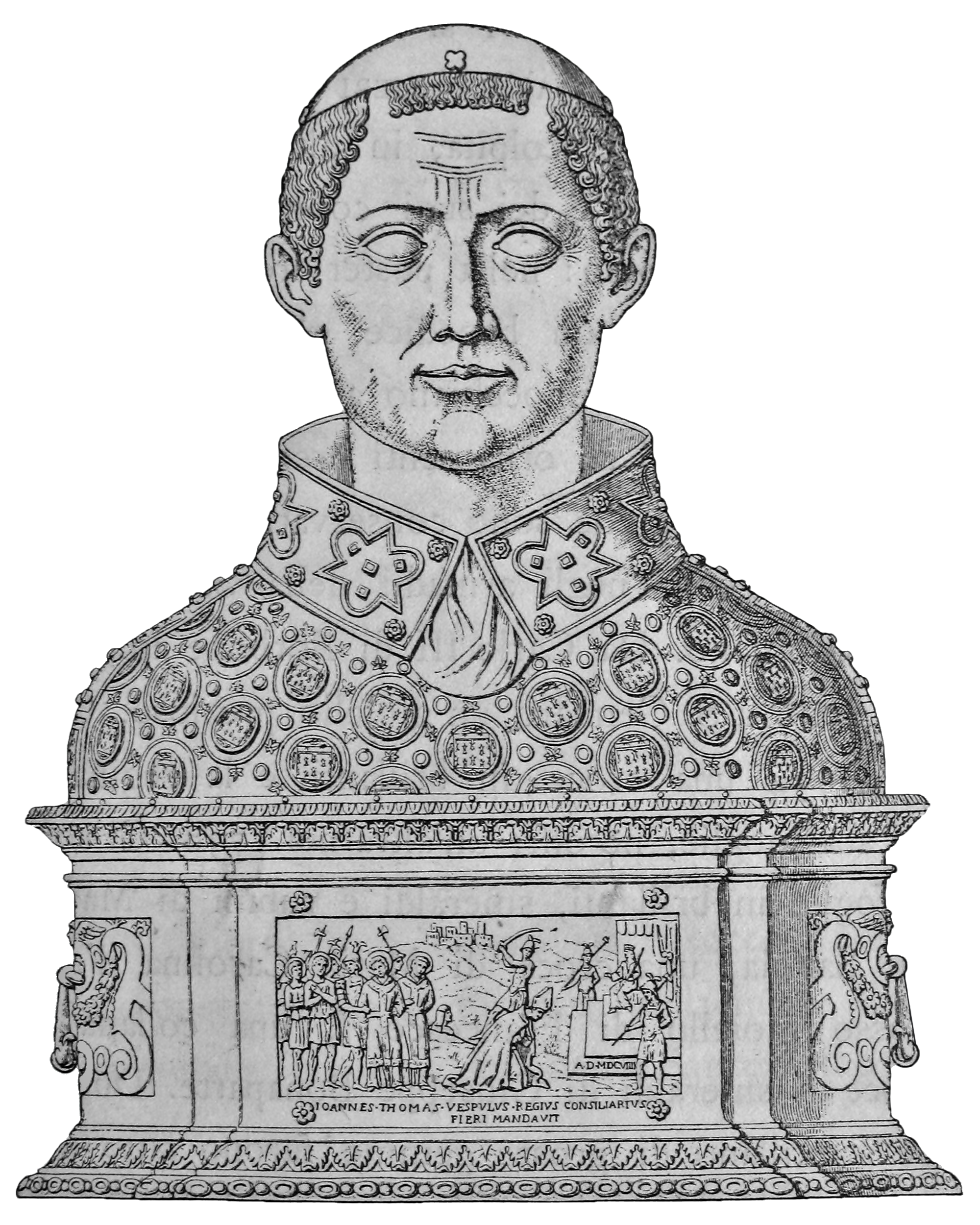 Silver bust of Saint Januarius.